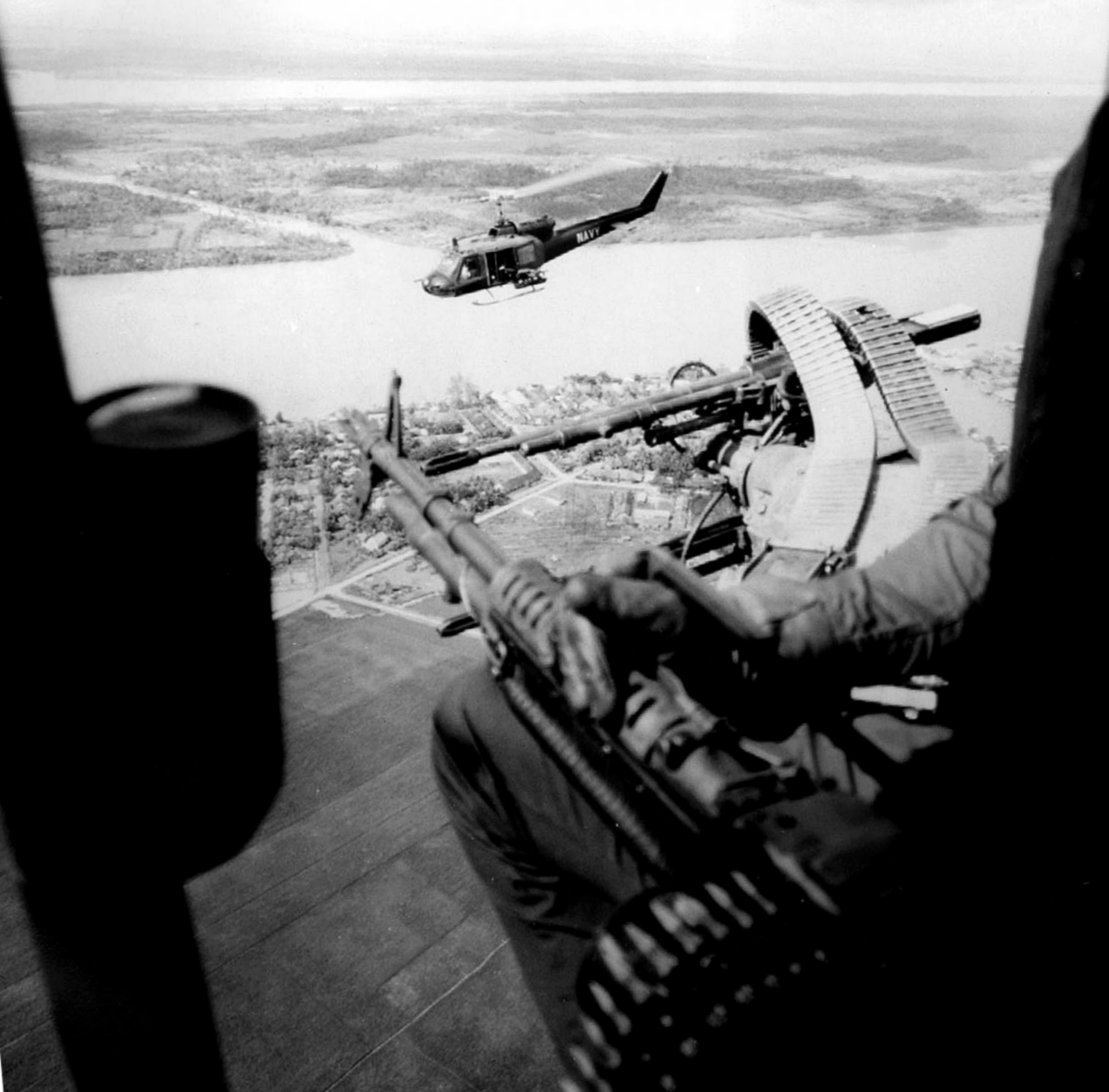 While on a combat mission near Can Tho, Republic of Vietnam, on 9 November 1967, the door gunner of an armed U.S. Navy Bell UH-1B Huey Helicopter Attack Squadron (Light) 3 (HA(L)-3 Seawolves, Detachment 7, gun at the ready, scans the rice paddies below him for signs of the enemy movement. Another Huey hovers over the river banks to assist in patrol operations by the Navy's River Patrol Boats. The only squadron of its kind, HA(L)-3 was established to specifically meet the tactical requirements of riverine warfare during the Vietnam War.